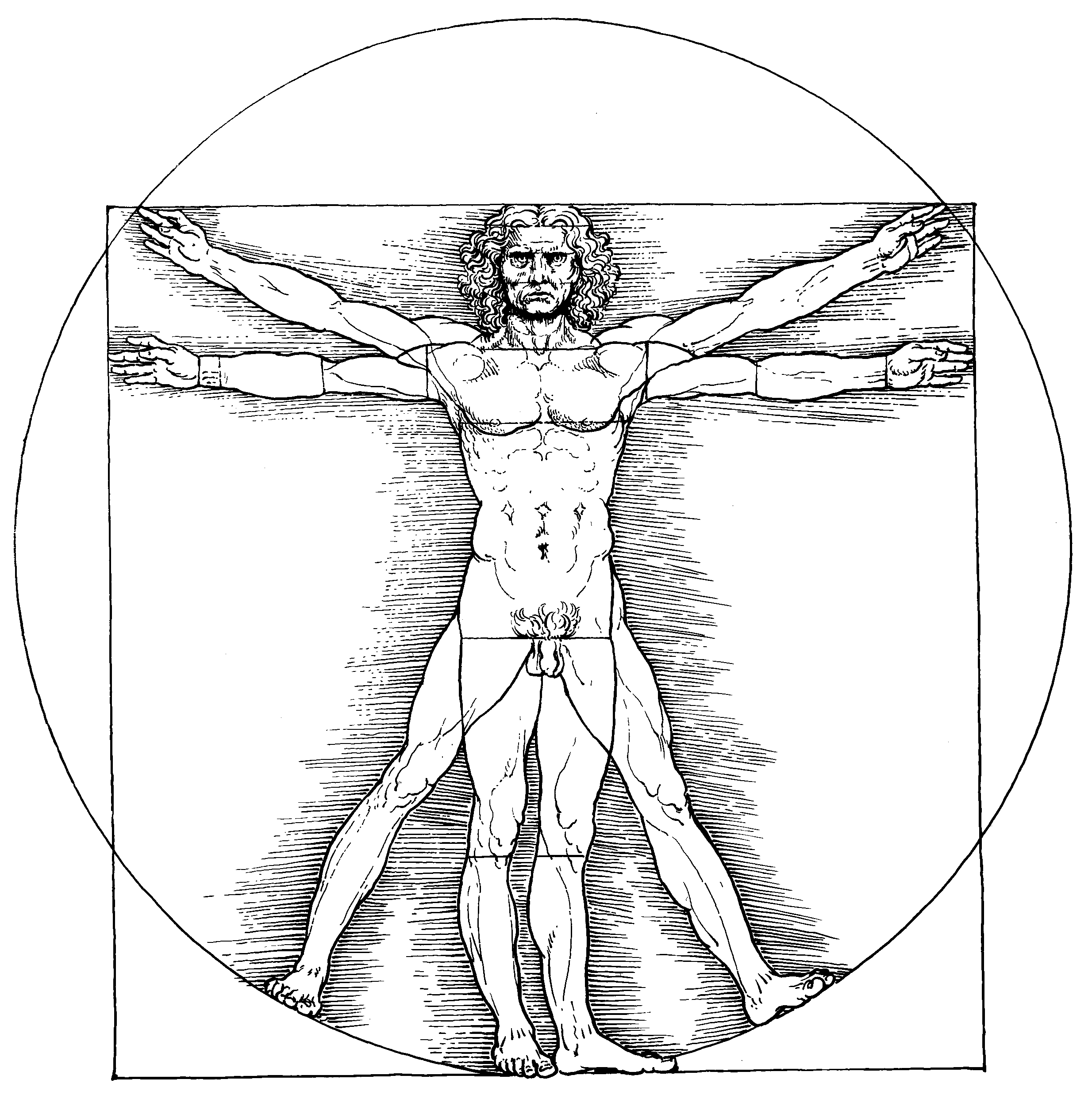 Vitruvian man by Leonardo da Vinci 1-bit PNG with transparency